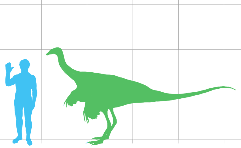 Size of the ornithomimid dinosaur Struthiomimus altus compared with a human. Size based on specimen UCMZ 1980.1 (scaled to humeral length). Each grid segment = 1 meter.